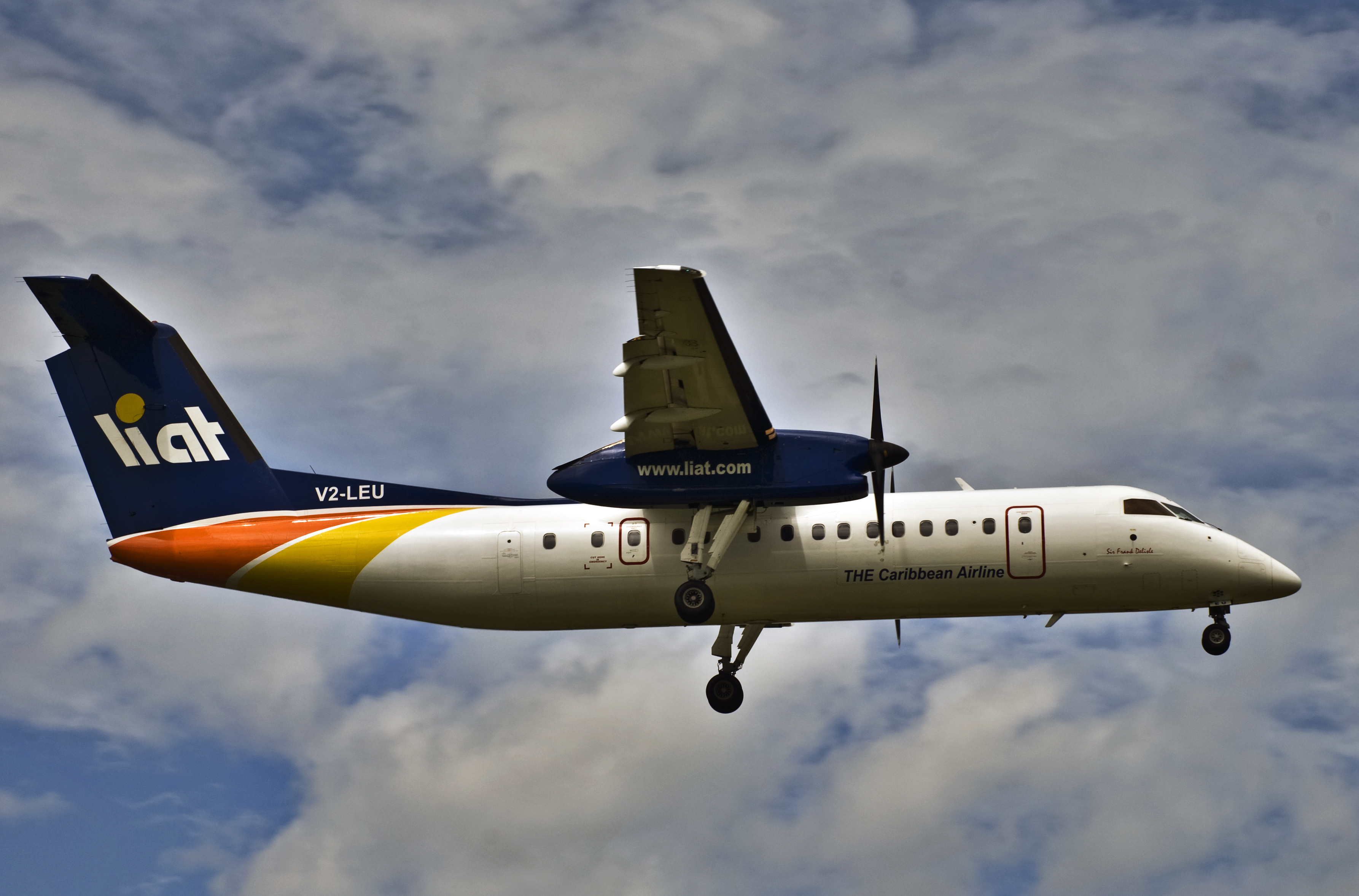 In the sky, Barbados